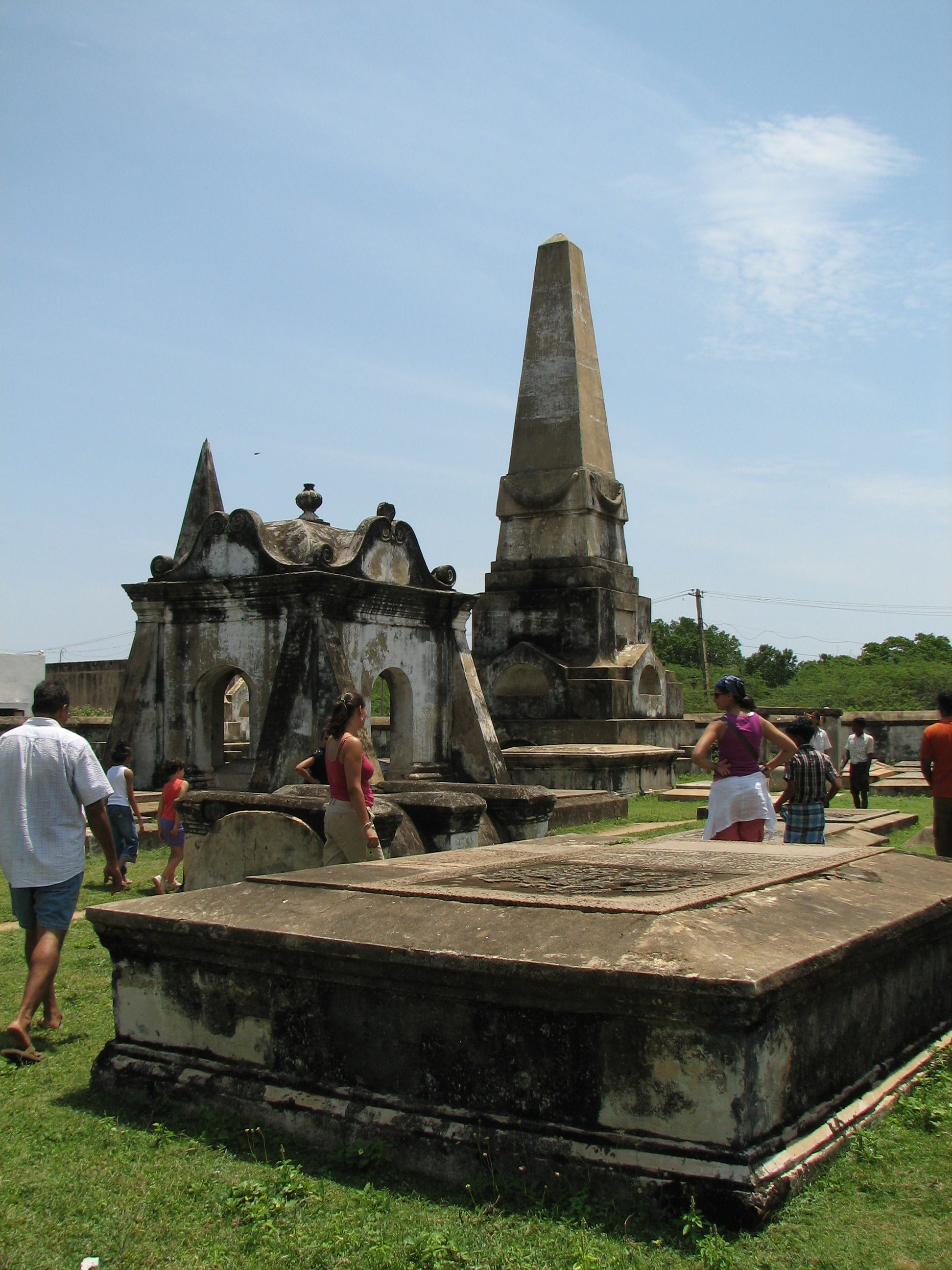 The CouchSurfing group checking out the old Dutch Cemetary. Most of the gravestones were intricately carved and laid with latin inscriptions with a few larger tombs and even an obelisk.